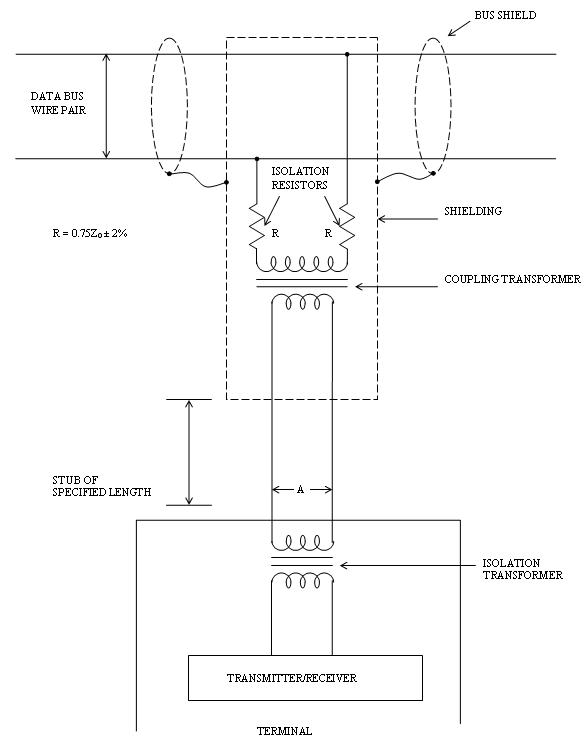 Redrawn figure 9 from MIL-STD-1553B: Data bus interface using transformer coupling